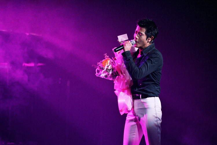 Aaron Kwok's Concert in San Francisco, Nob Hill Masonic Center.